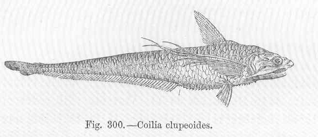 Coilia clupeoides Subject: Coilia mystus Tag: Fish